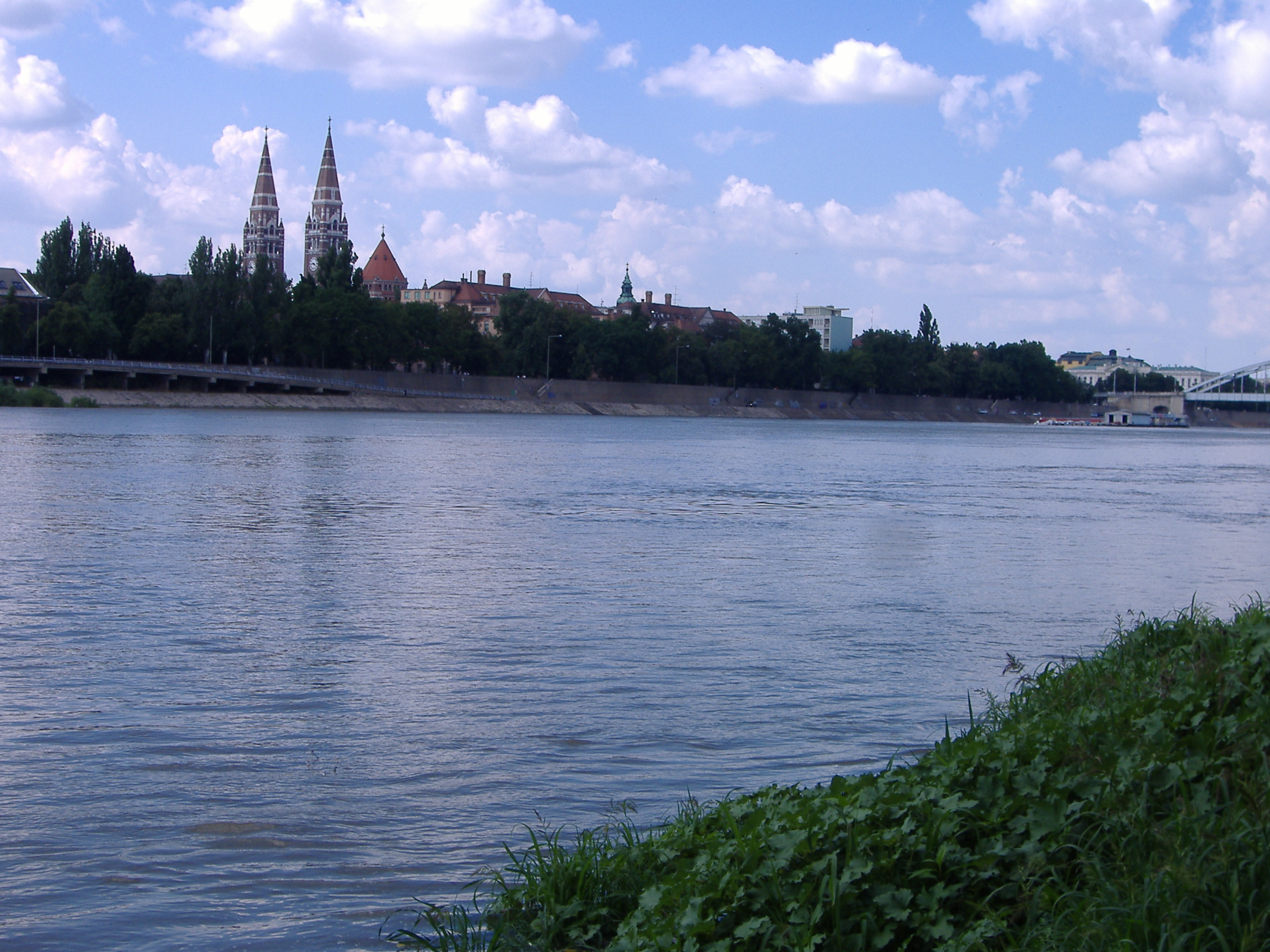 River Tisza at Szeged, Hugary.